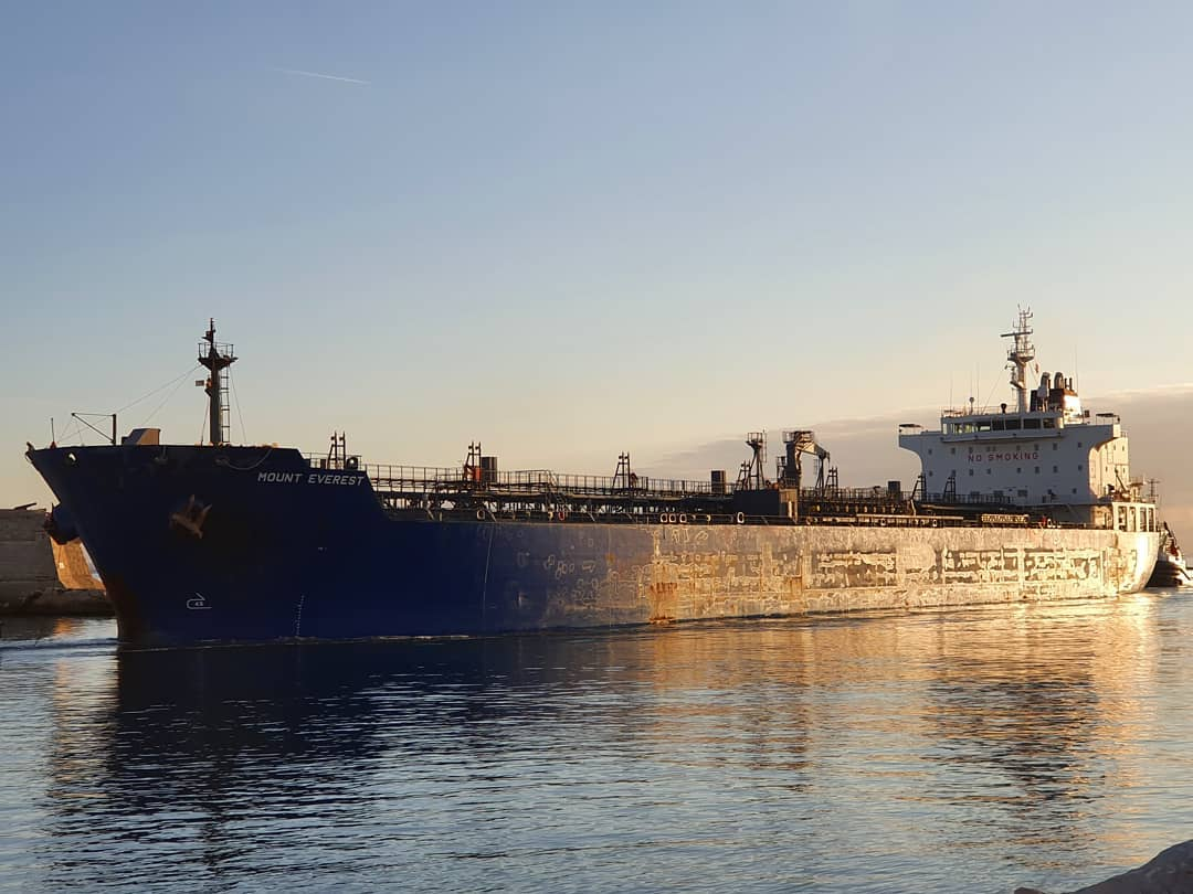 Oil tanker ship